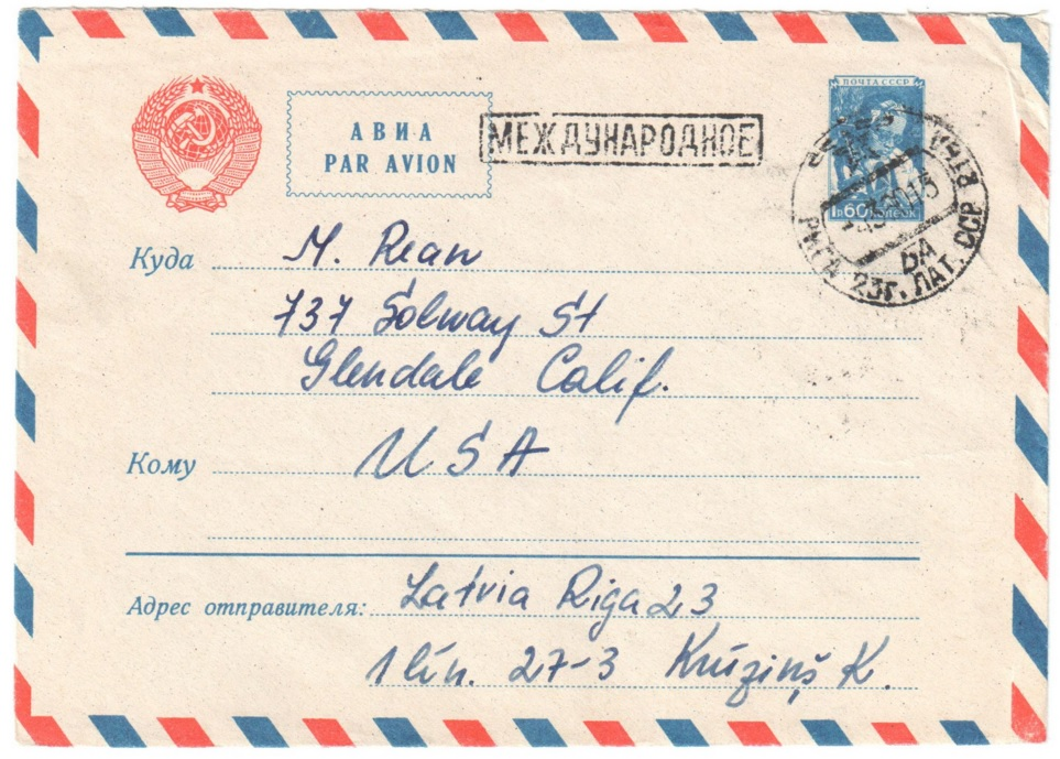 USSR 1960-03-04 airmail cover sent from Riga Latvia to USA.